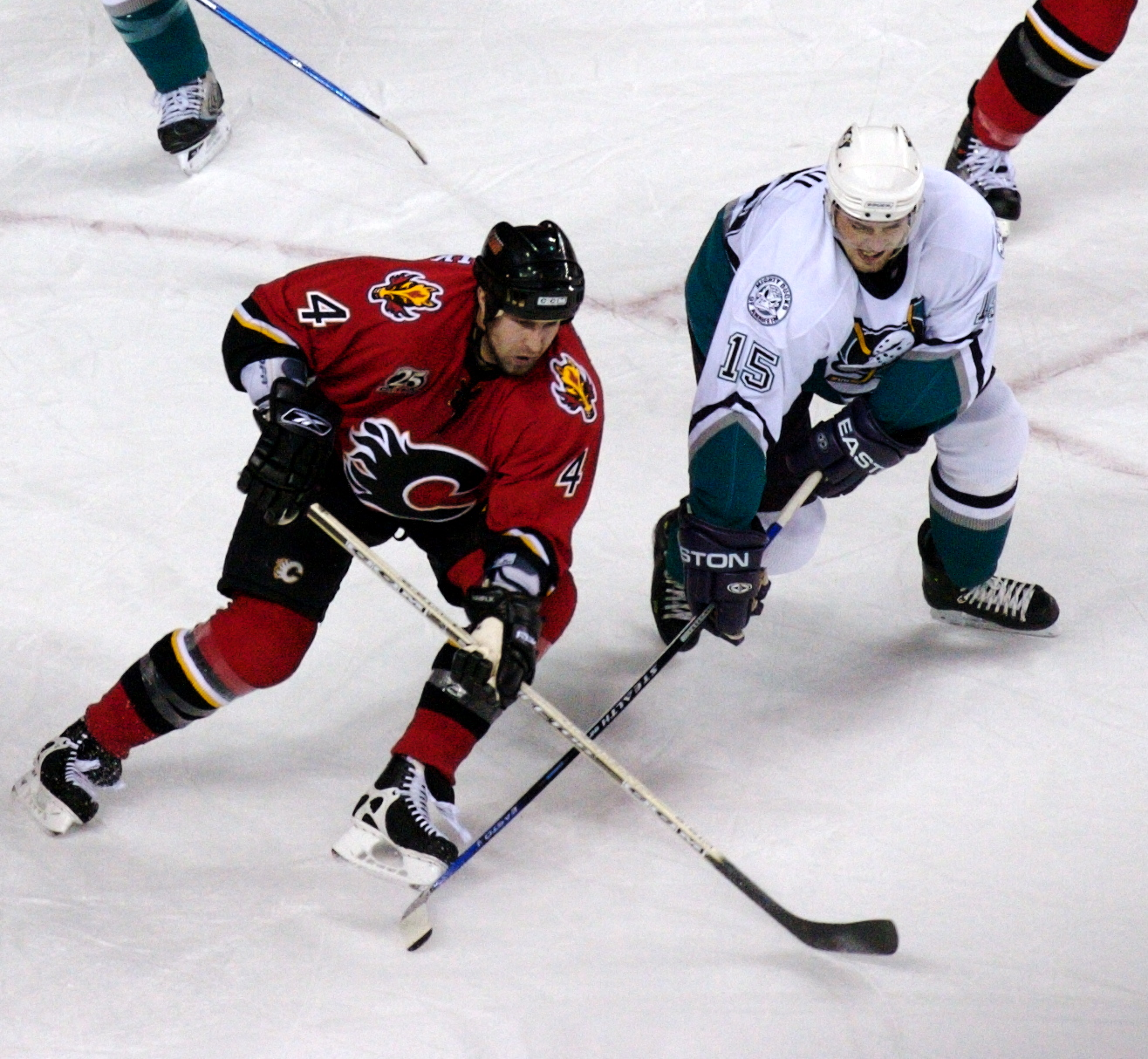 Roman Hamrlik vs. Joffrey Lupul dueling for position